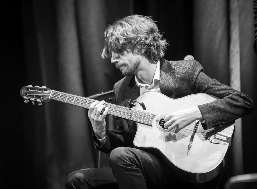 Gustav Lundgren performs with Acoustic Connection at Cosmopolite. The concert was part of Djangofestivalen 2017 and took place on 20. January 2017 in Oslo. Acoustic Connection is a collaboration project between Gustav Lundgren Trio and Antoine Boyer.Lineup:Gustav Lundgren (guitar)Andreas Unge (double bass)Martin Widlund (guitar)Antoine Boyer (guitar)